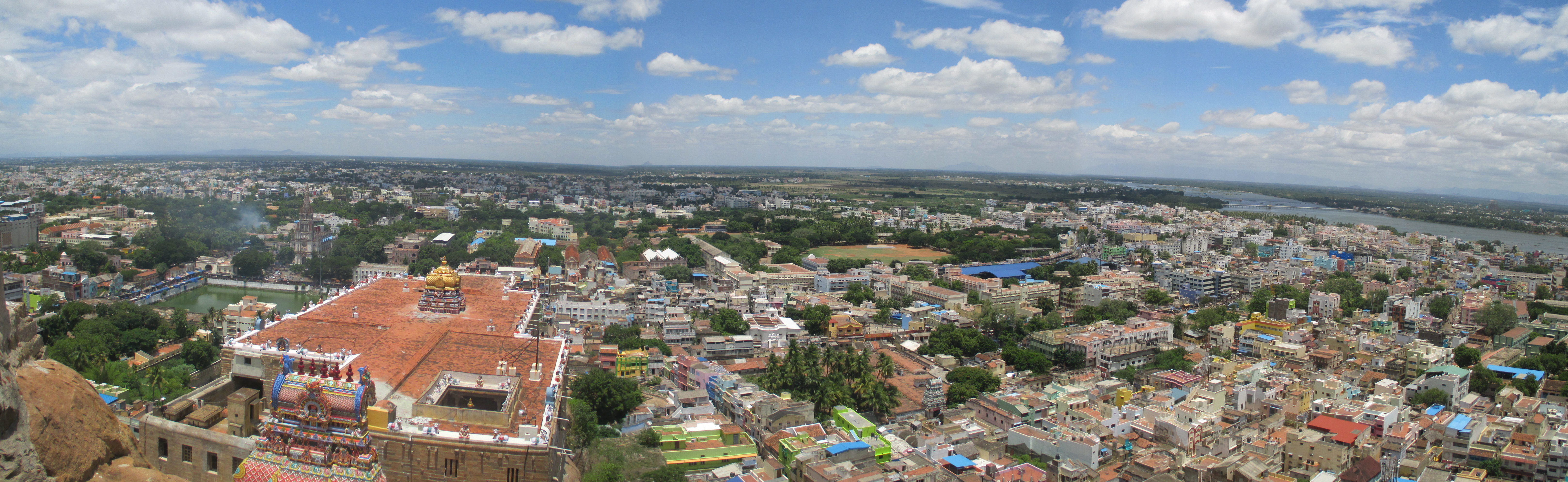 Trichy Panorama